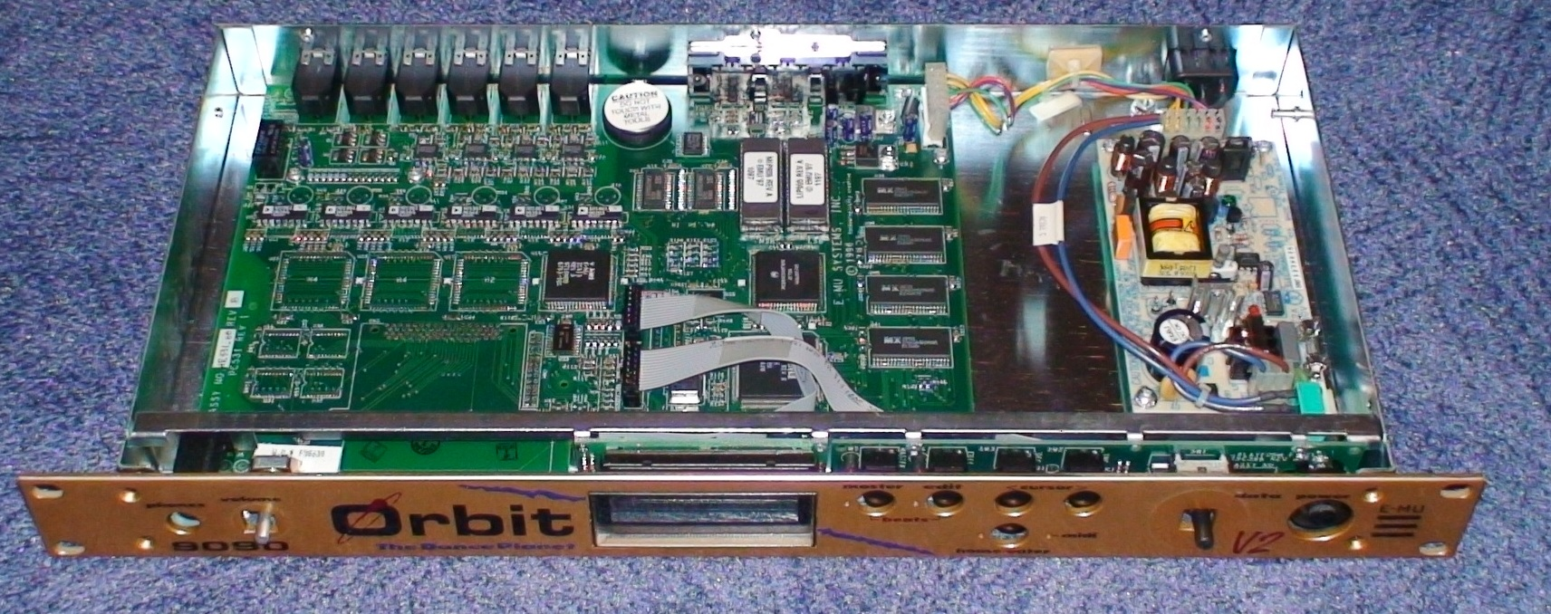 Photography of the Orbit Dance Synthesizer Version 2 from E-MU Systems - produced in 1992